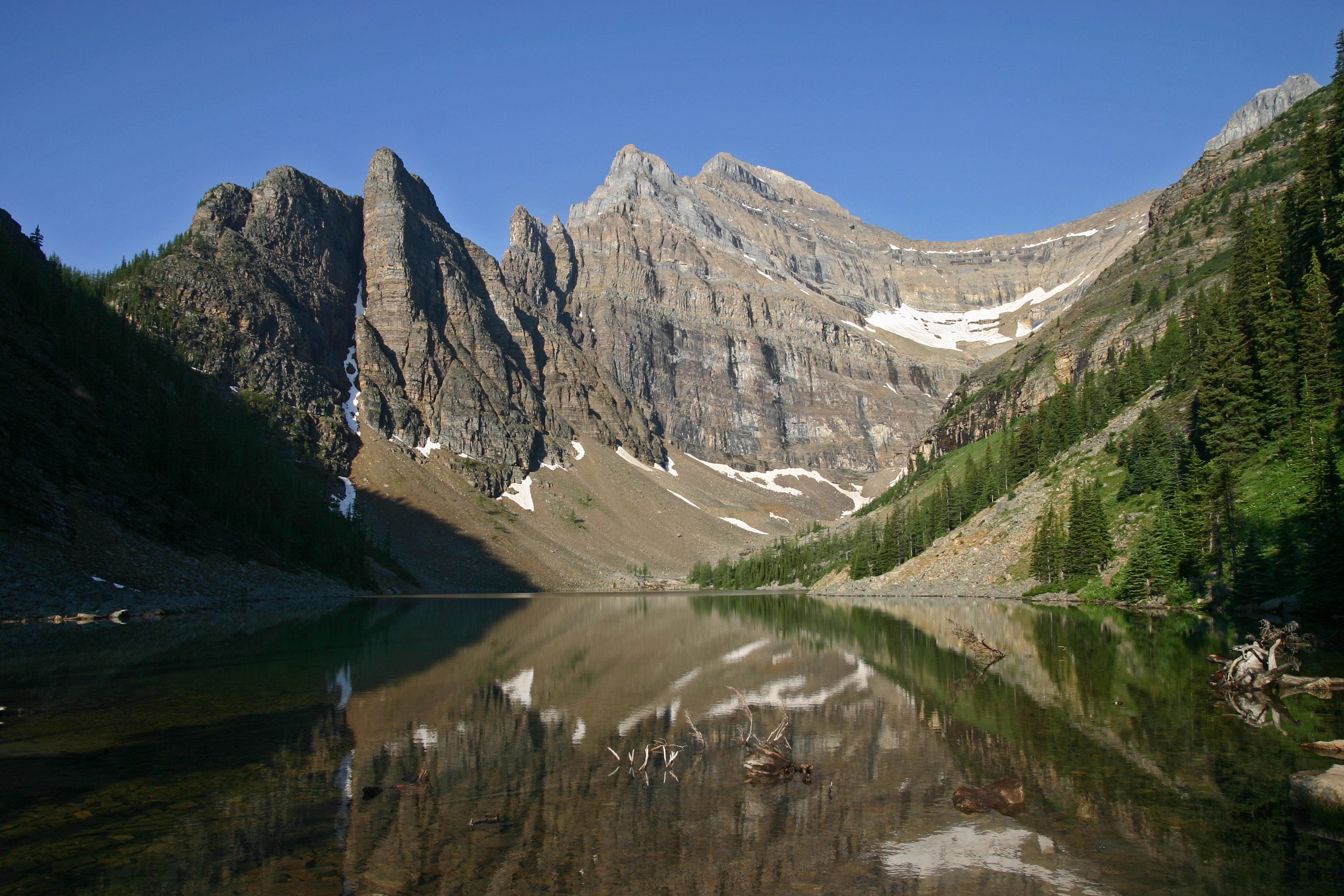 Lake Agnes near Lake Louise in Banff National Park, Canada.Mount Whyte (2,983 m) is the peak at top centre. The tip of Mount Niblock (2,976 m) can be seen at the top right.